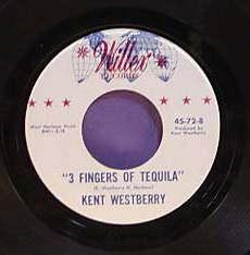 3 Fingers of Tequila by Kent Westberry, Willex [year unknown].